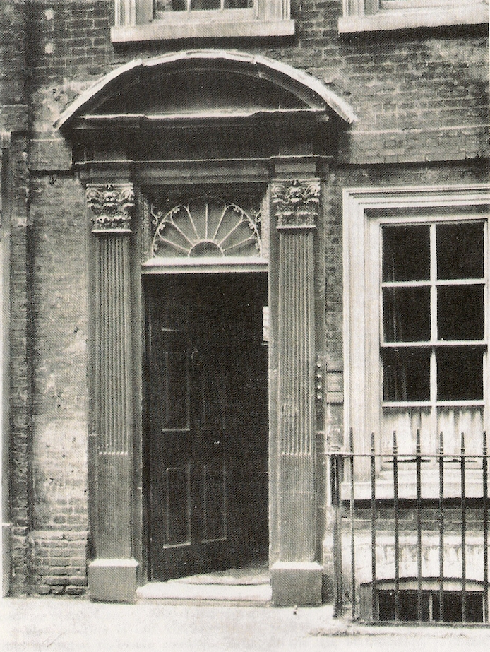 A photograph of the front door of Old Devonshire House 48 Boswell Street, Holborn, London taken in or about April 1937